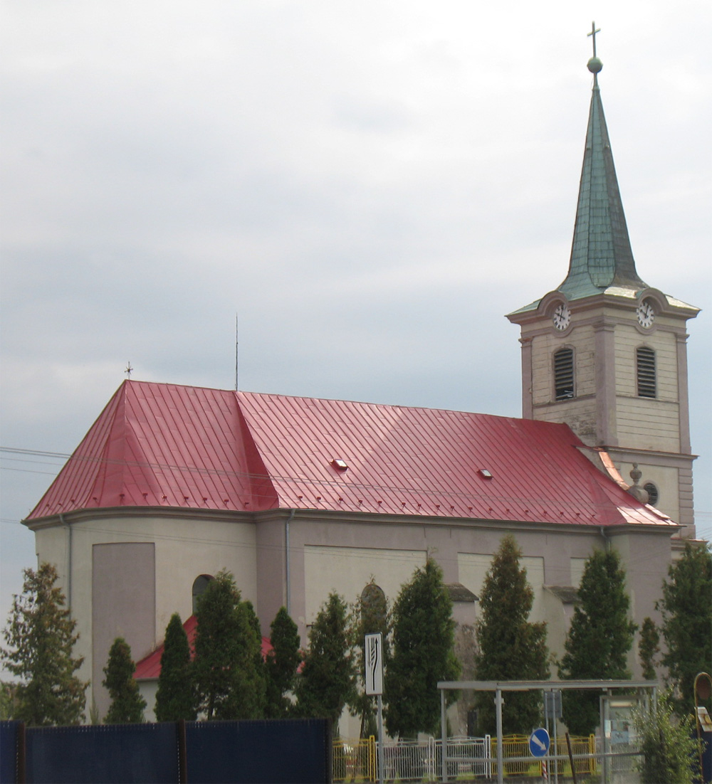 Church in Ivanka pri Nitre